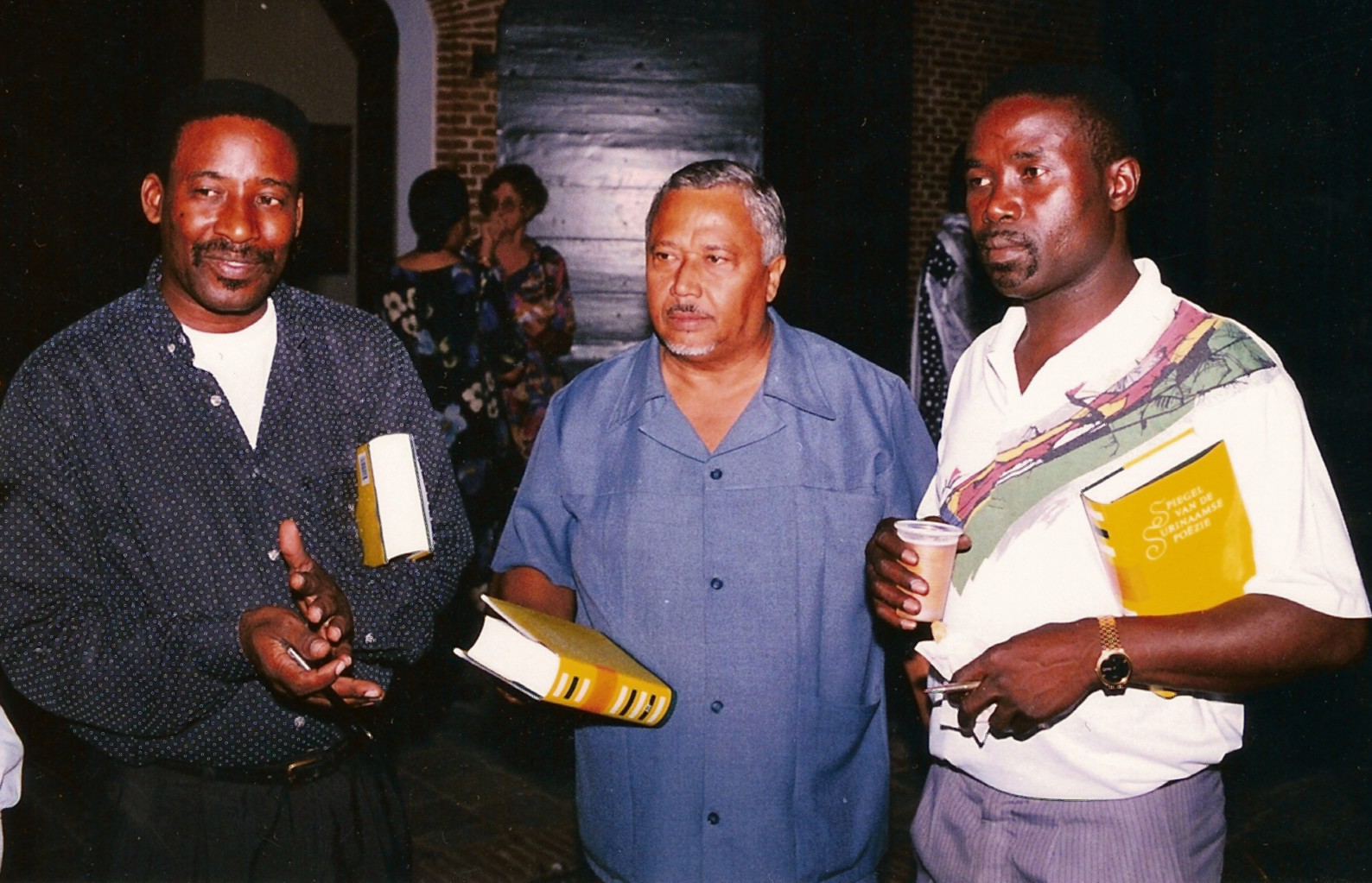 Suriname poets Gerrit Barron, Frits Wols and Manuel Stuart at Fort Zeelandia, Paramaribo.